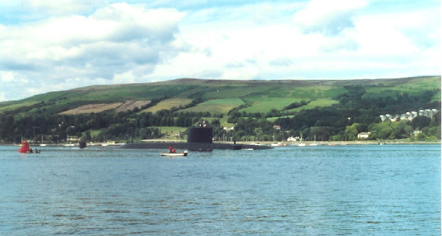 Rhu Narrows. HMS Revenge transits the Rhu Narrows as she departs the Gareloch for INDEX in the Clyde Submarine Exercise Areas. The red buoy to the left is the channel marker at the end of Limekiln Point.